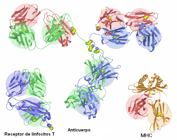 Spanish version of the file in commons Image:IgDomain2_examples.png